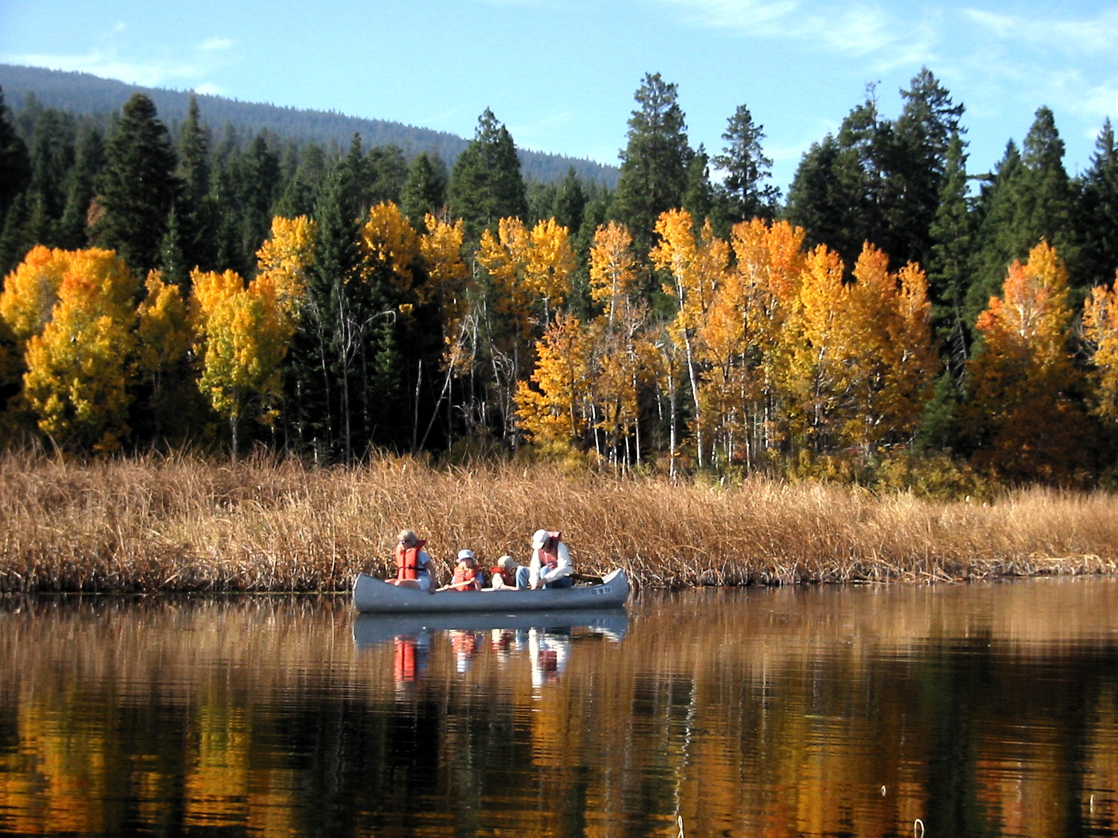 Upper Klamath Lake Canoe Trail; Populus tremuloides, fall foliage; Pinus ponderosa subsp. ponderosa; and Abies concolor